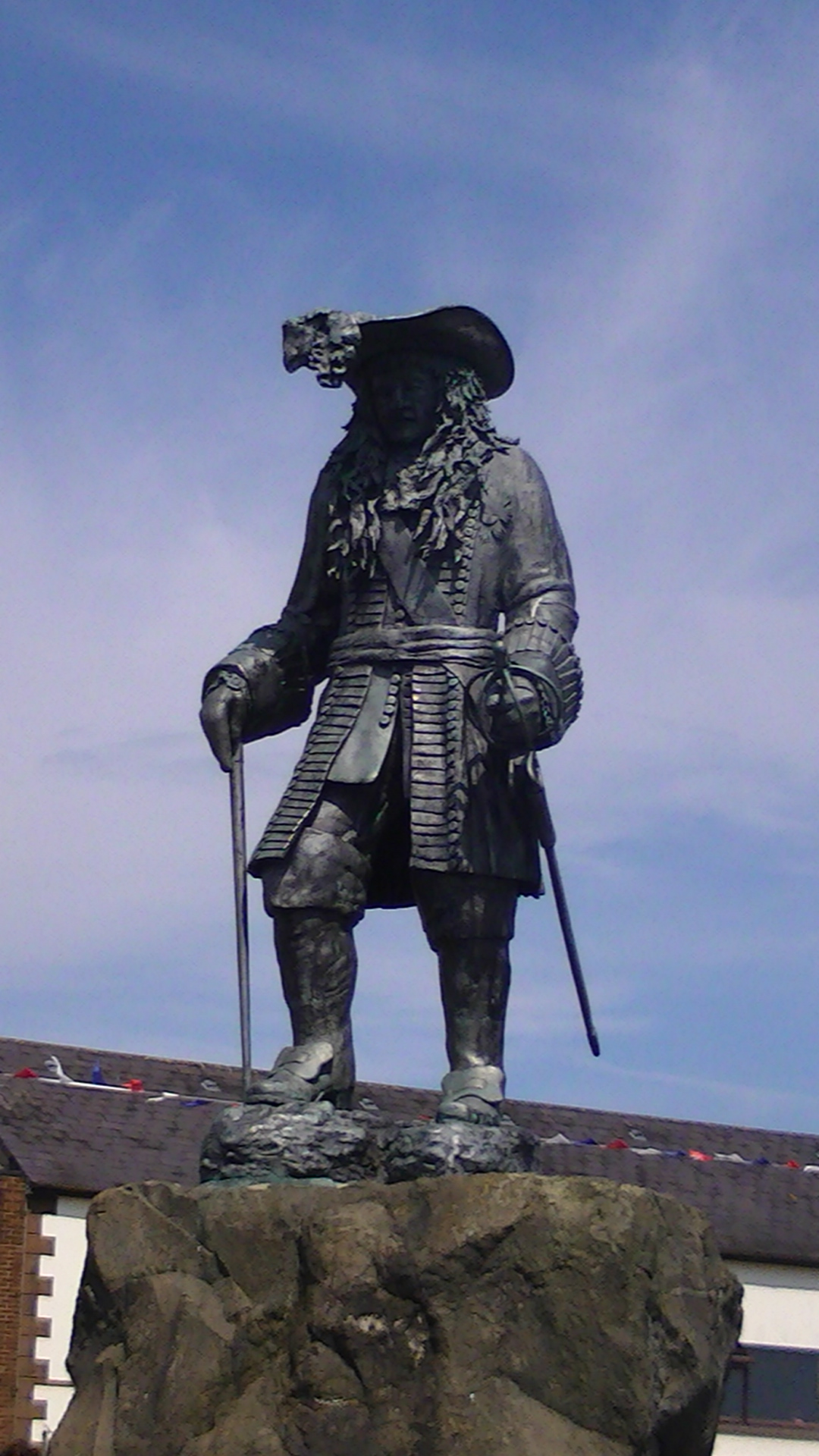 Statue of King William III at Carrickfergus Castle